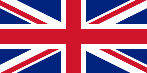 no